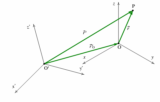 vetor 3